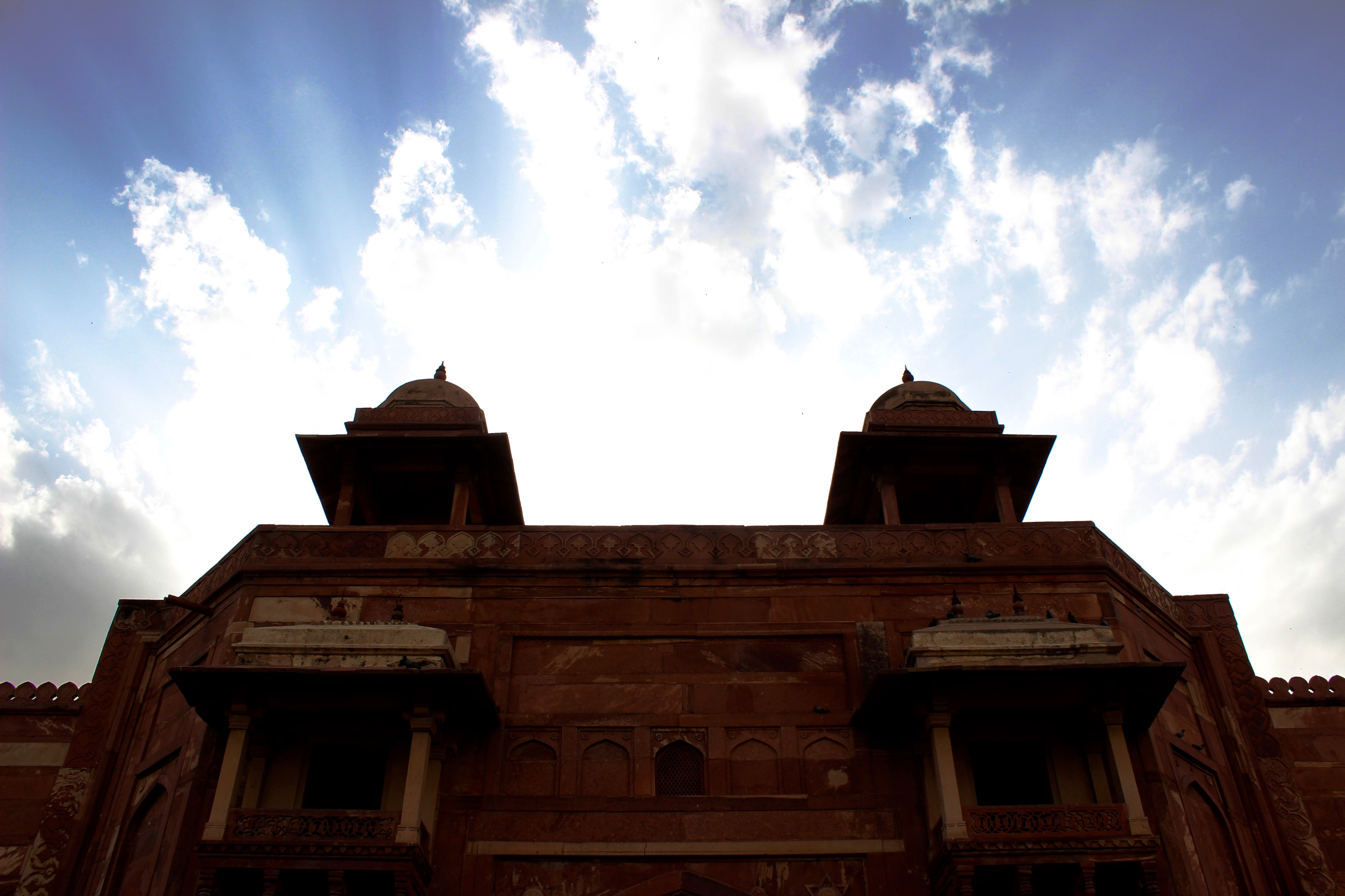 Fatehpur Sikri: Mariam's House